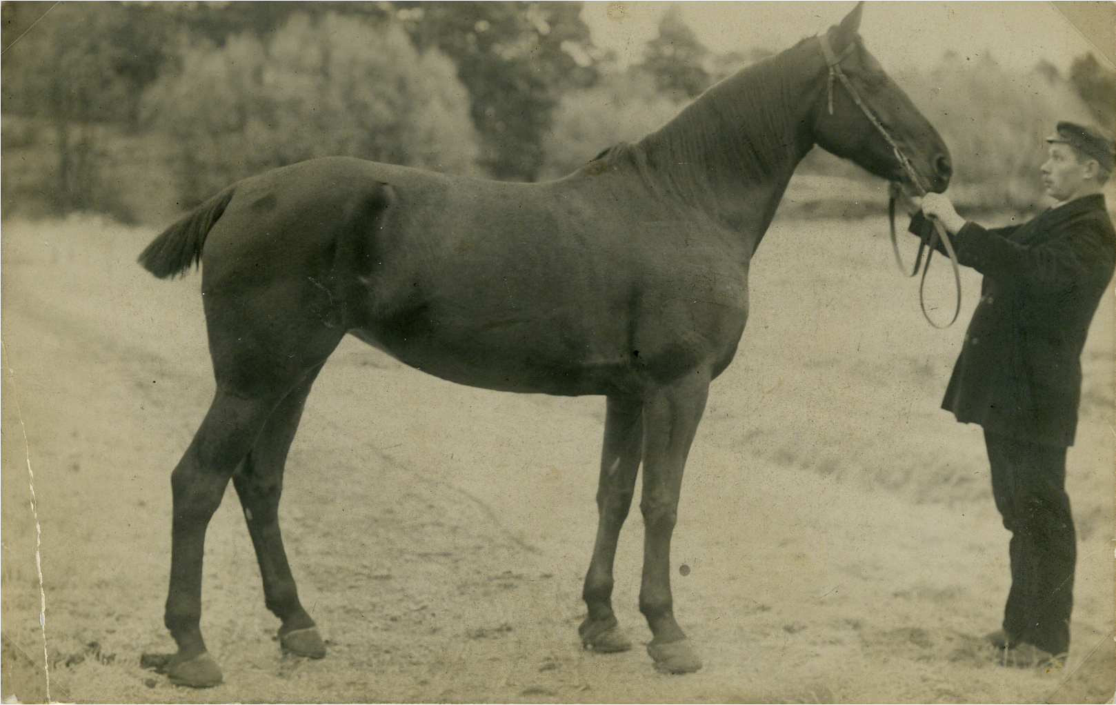 Carriage driver of Forsby estate presents a carriage horse. The horse is obviously not of local Finnish stock, and is likely a crossbreed, probably Thoroughbred x Finnish